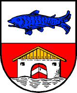 Source: "Fahnen-Gärtner GmbH, Mittersill" This image shows a flag, a coat of arms, a seal or some other official insignia. The use of such symbols is restricted in many countries. These restrictions are independent of the copyright status.